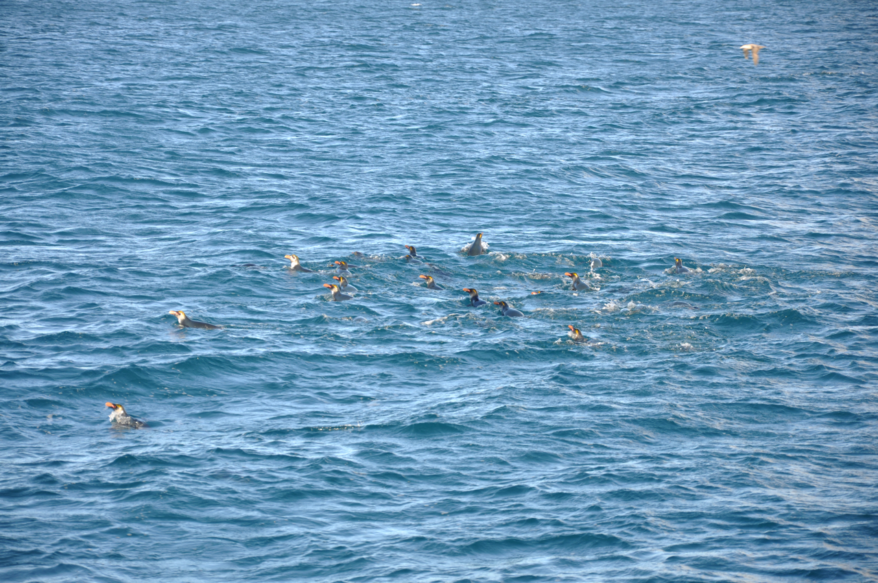 Eudyptes chrysolophus (South Georgia)